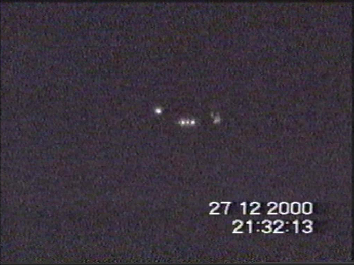 Description: Still from VHS footage of UFO sent to Ministry of Defence. Date: 27th December 2000 Our Catalogue Reference: DEFE 24/2021 p.318 This image is from the collections of The National Archives. Feel free to share it within the spirit of the Commons. You can view the latest UFO files transferred from the Ministry of Defence at: .uk/ For high quality reproductions of any item from our collection please contact our image library.